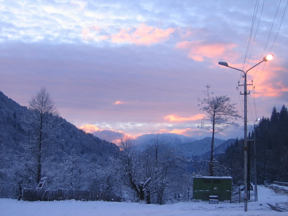 Sunset in Azhara, Upper Abkhazia, Georgia